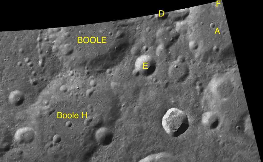 Part of the chart LAC-21 used for the presentation